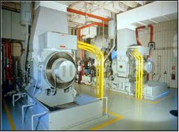 Gas turbines